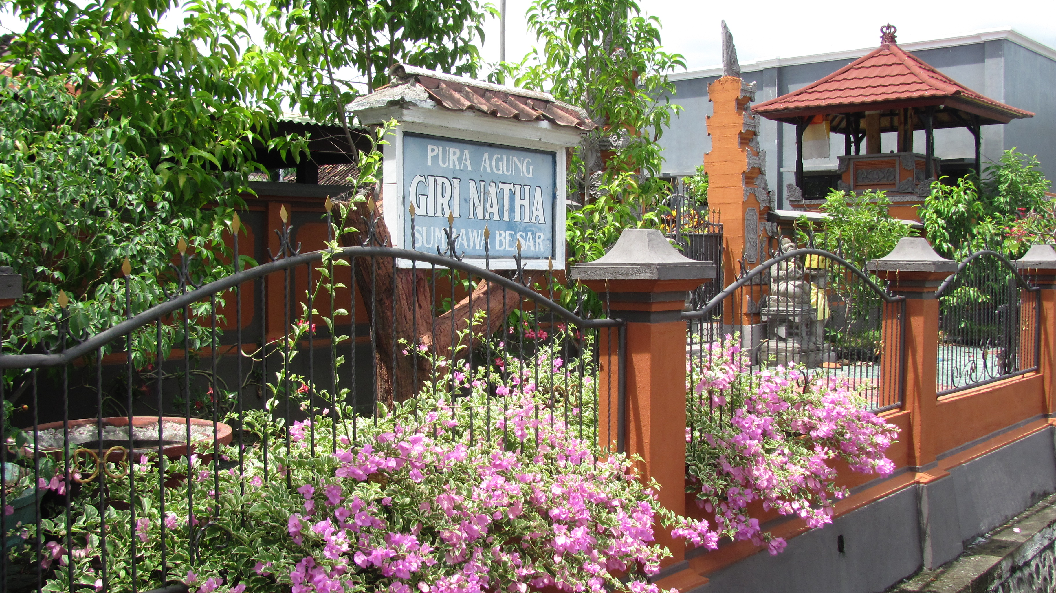 Hindu Temple Pura Agung Giri Gnatha, City of Sumbawa Besar, Sumbawa Island, Indonesia